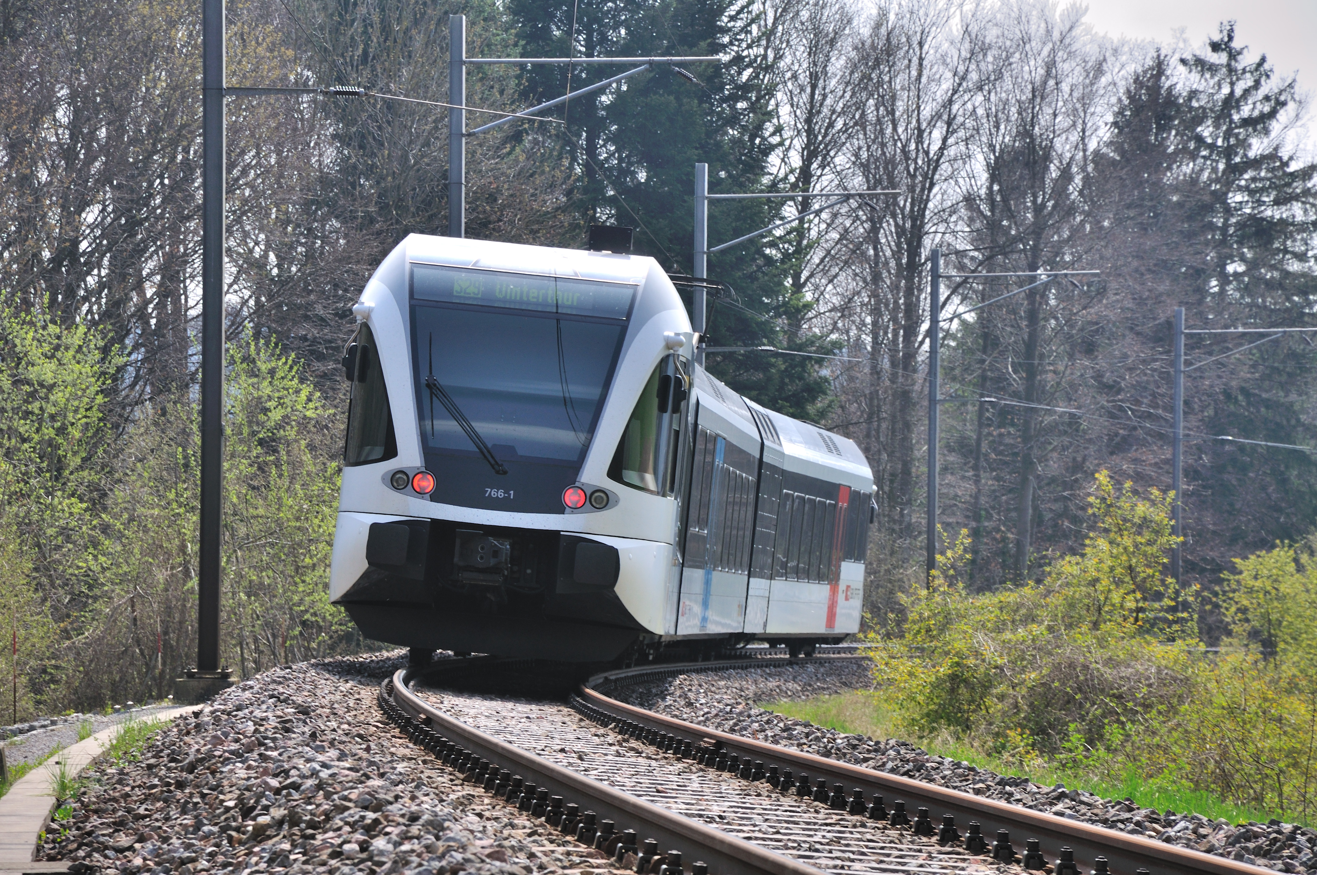 Switzerland, Canton of Zürich, Thurbruecke Ossingen, S29 to Winterthur leaving the Southern end of the bridge